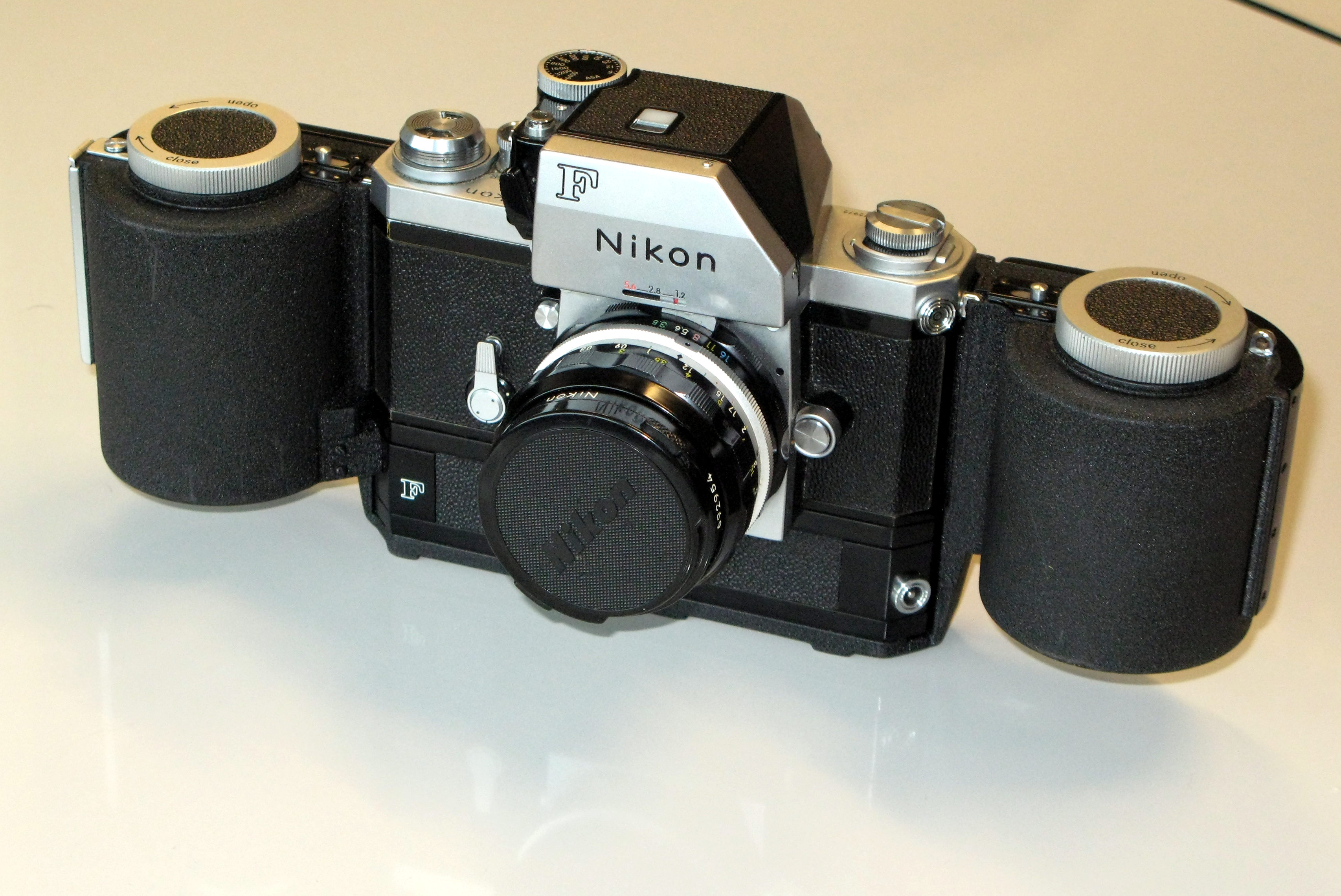 Nikon F with high capacity loader